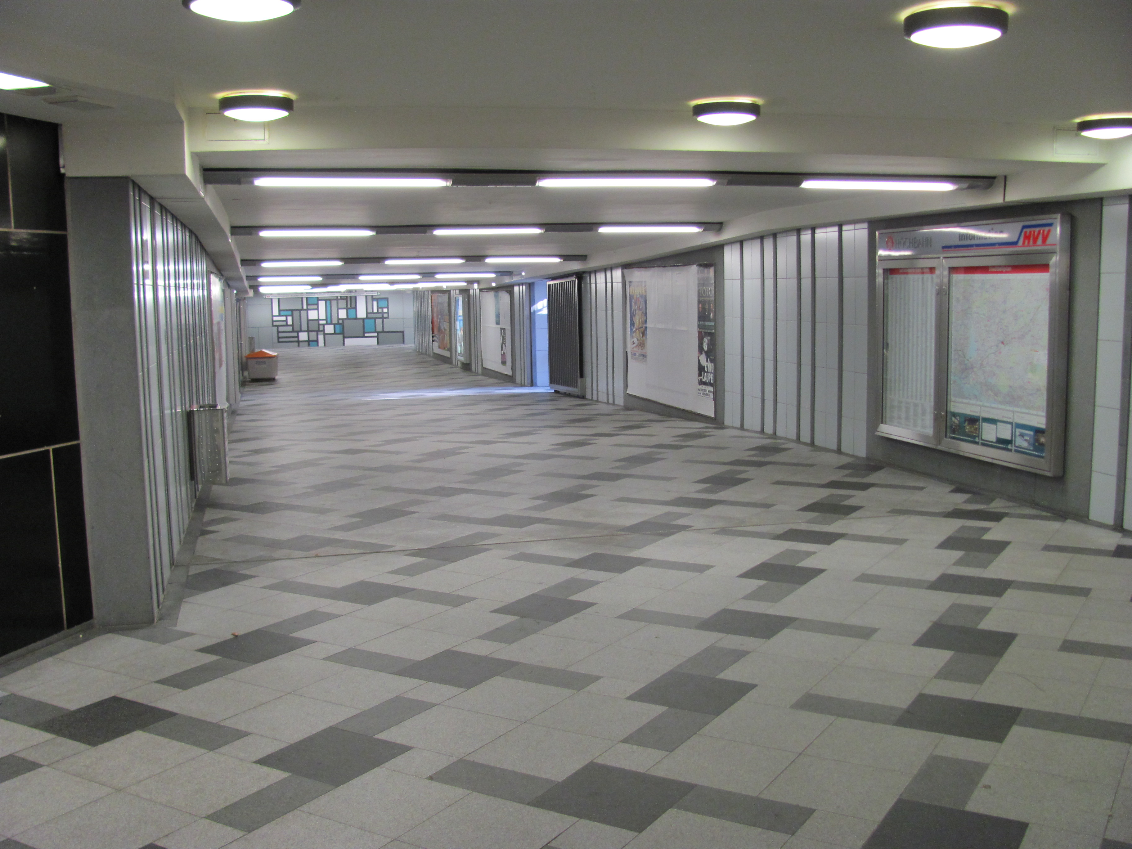 U-Bahn station Wandsbek Markt in Hamburg, Germany